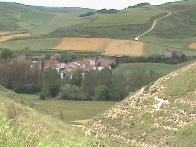 View of Villalbos from the mountain